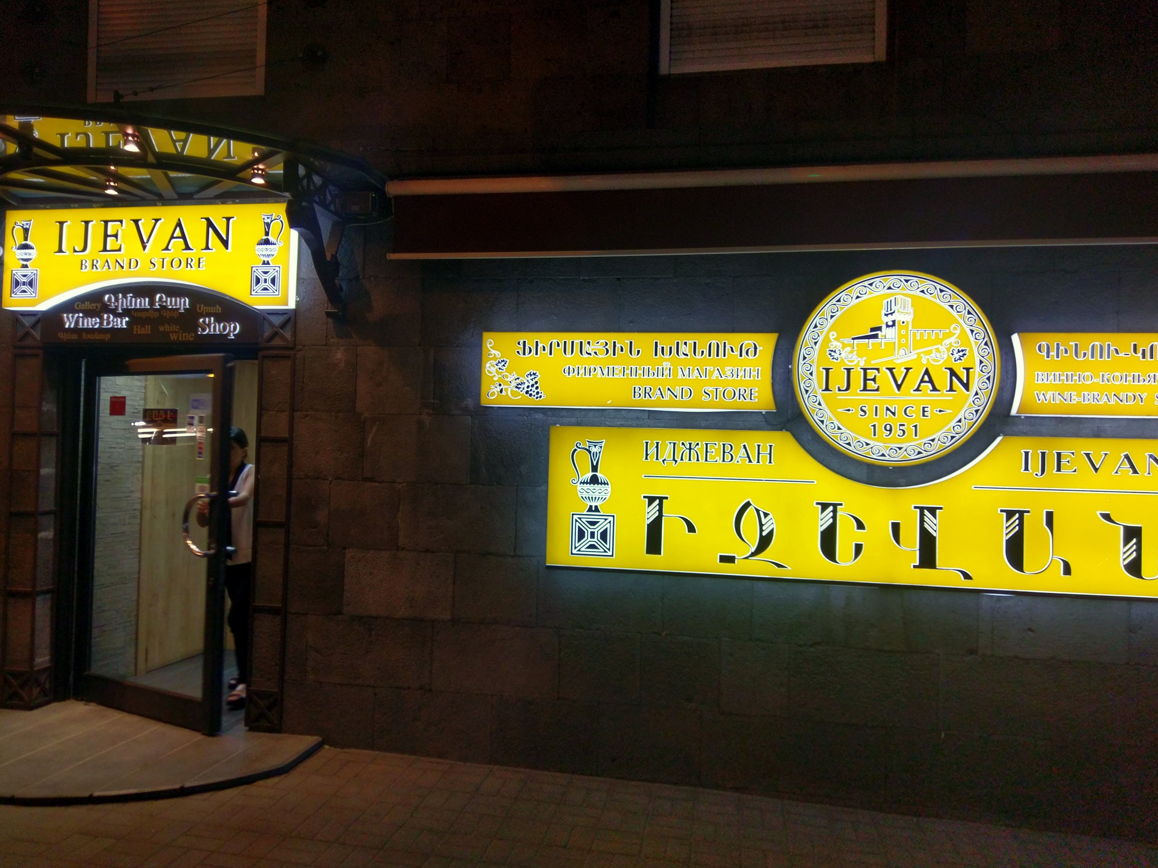 Ijevan Wine-Brandy Factory shop in Yerevan